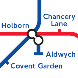 How the Aldwych tube station may have looked on the London Underground Map if it was still open to passengers. (Image based on London Underground Map, created by User:McDRye on Feb 26th, 2006)